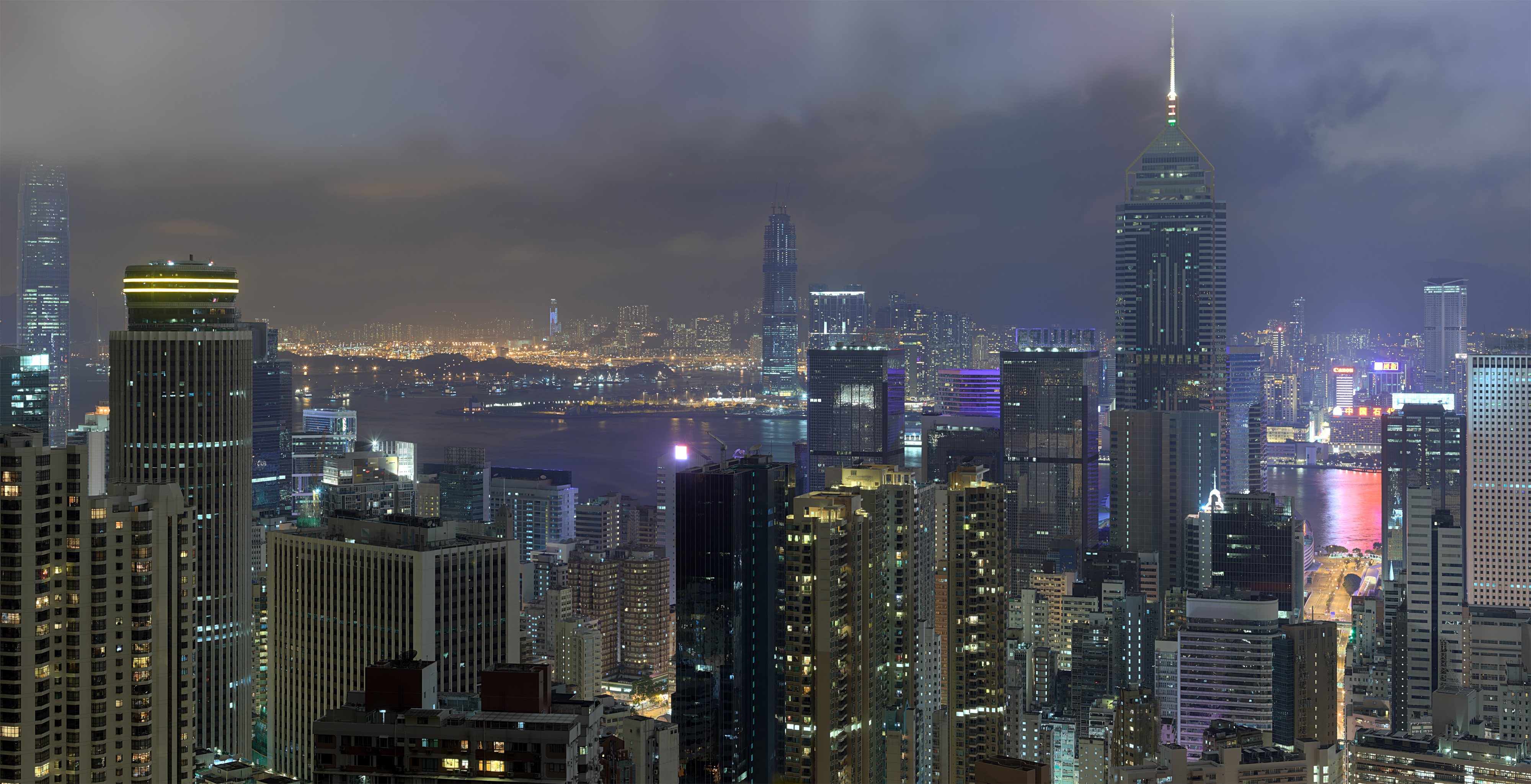 A 14 segment × 3 exposure panorama of Wan Chai, Hong Kong in rectilinear projection, taken from a lookout along Stubbs Road near Victoria Peak.